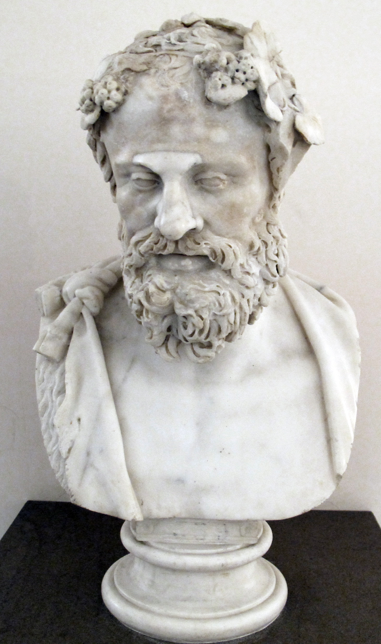 Ancient Roman busts from the Farnese Collection, now in Naples